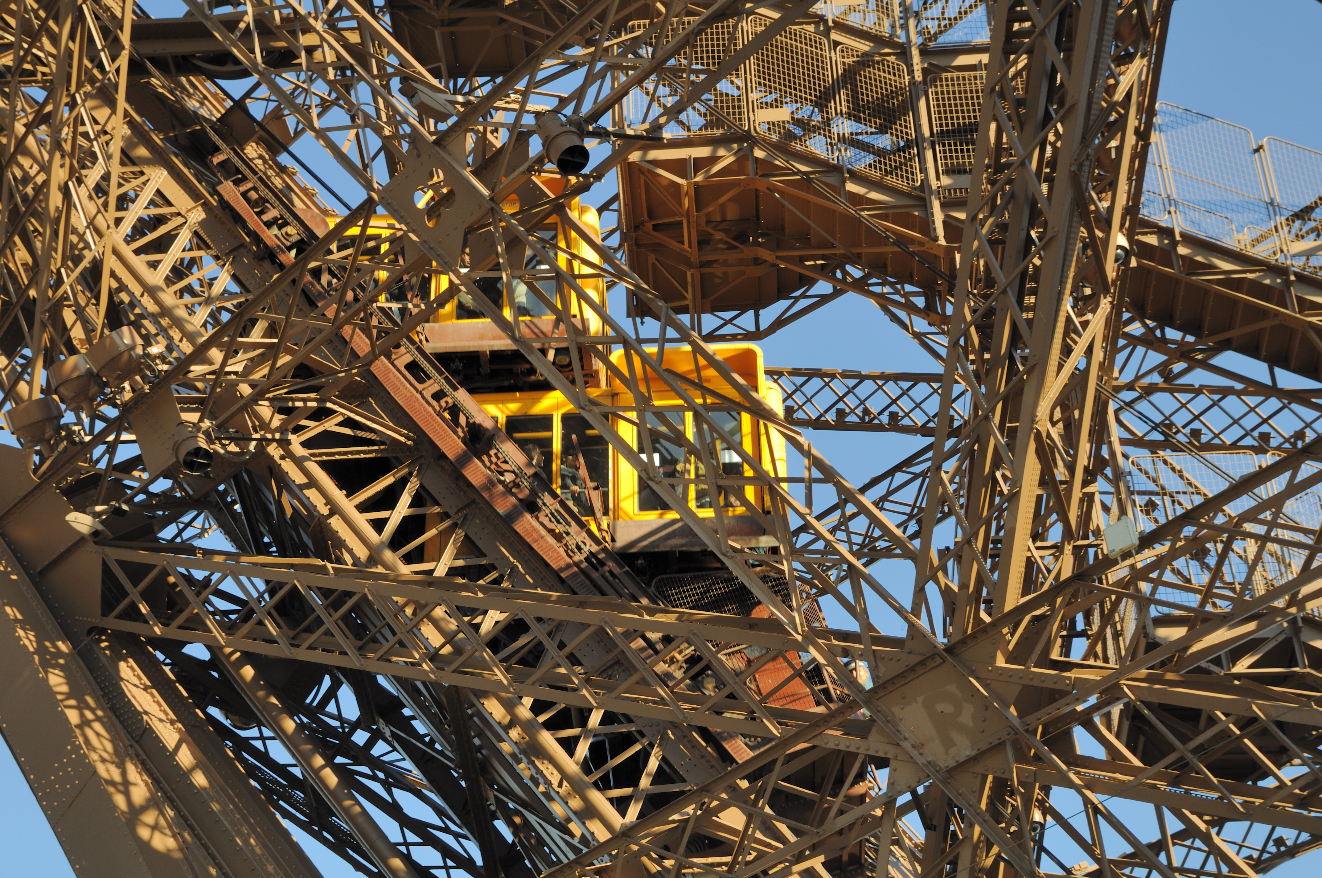 Eiffel Tower: elevator